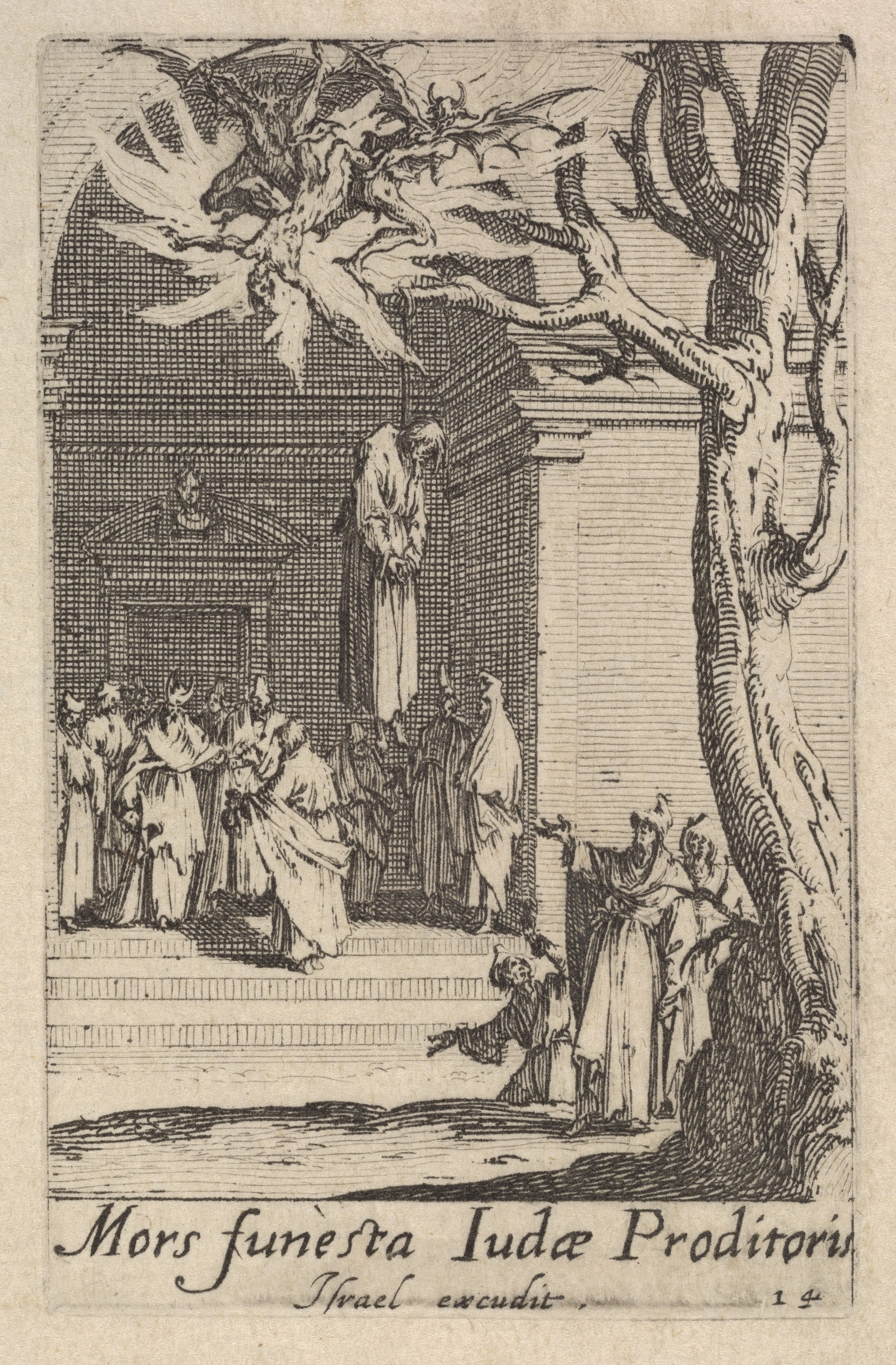 Print; Prints